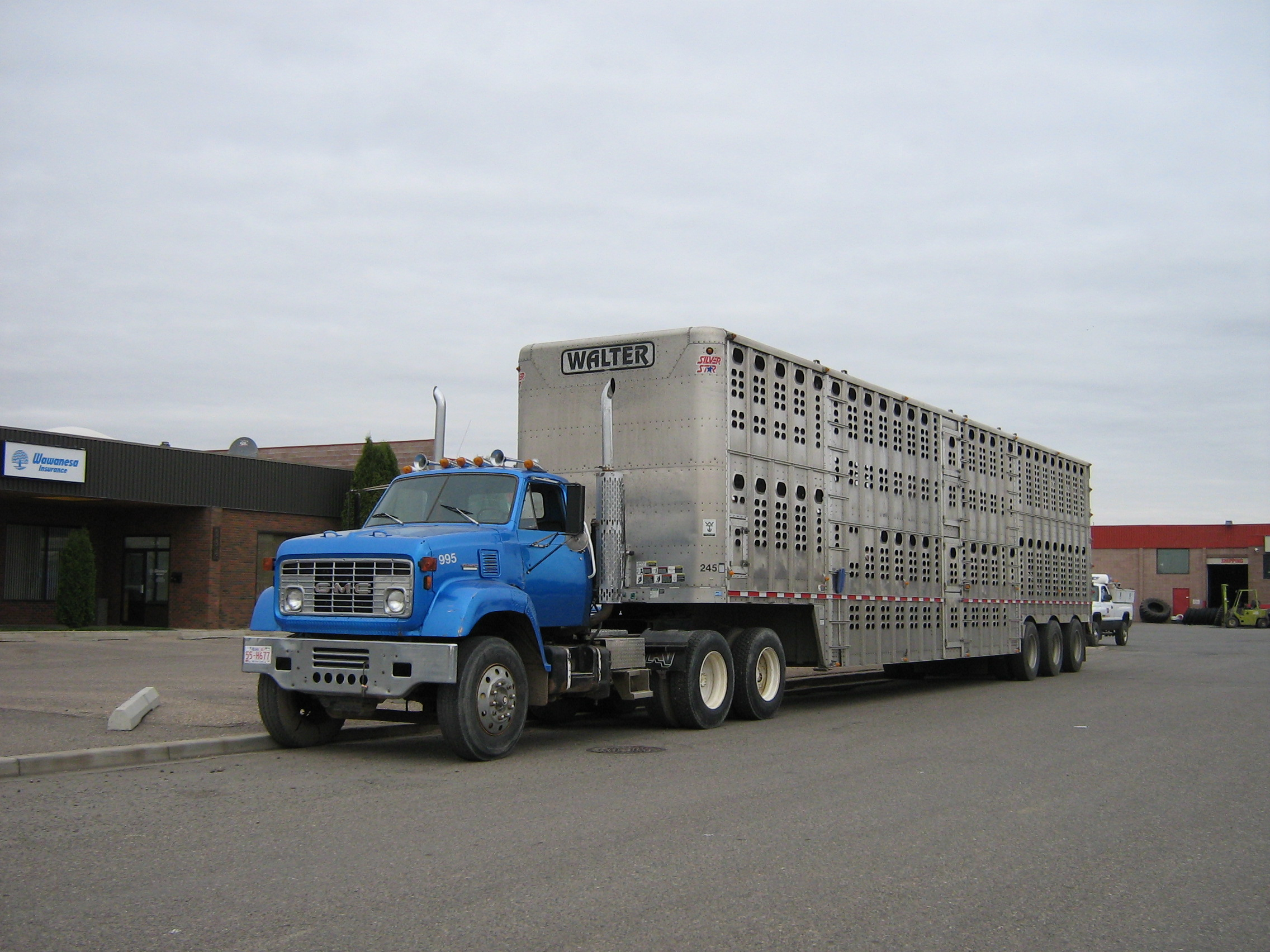 1971-77 GMC 9500 Semi-Truck.